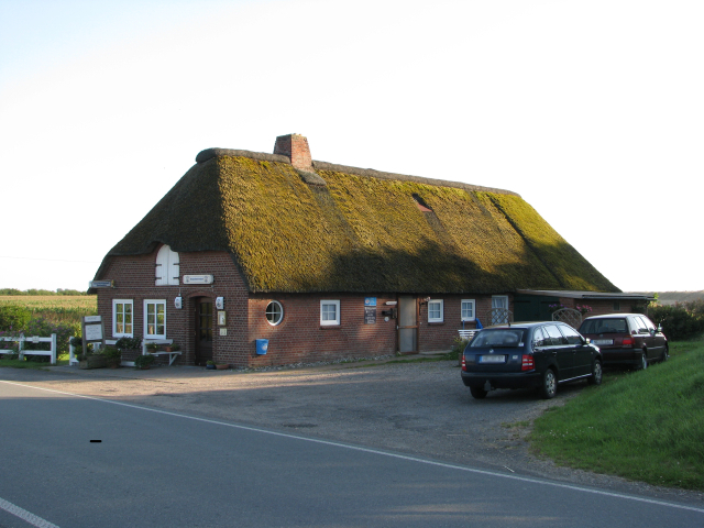 Small café Deichshörn in the municipality of Struckum, Germany